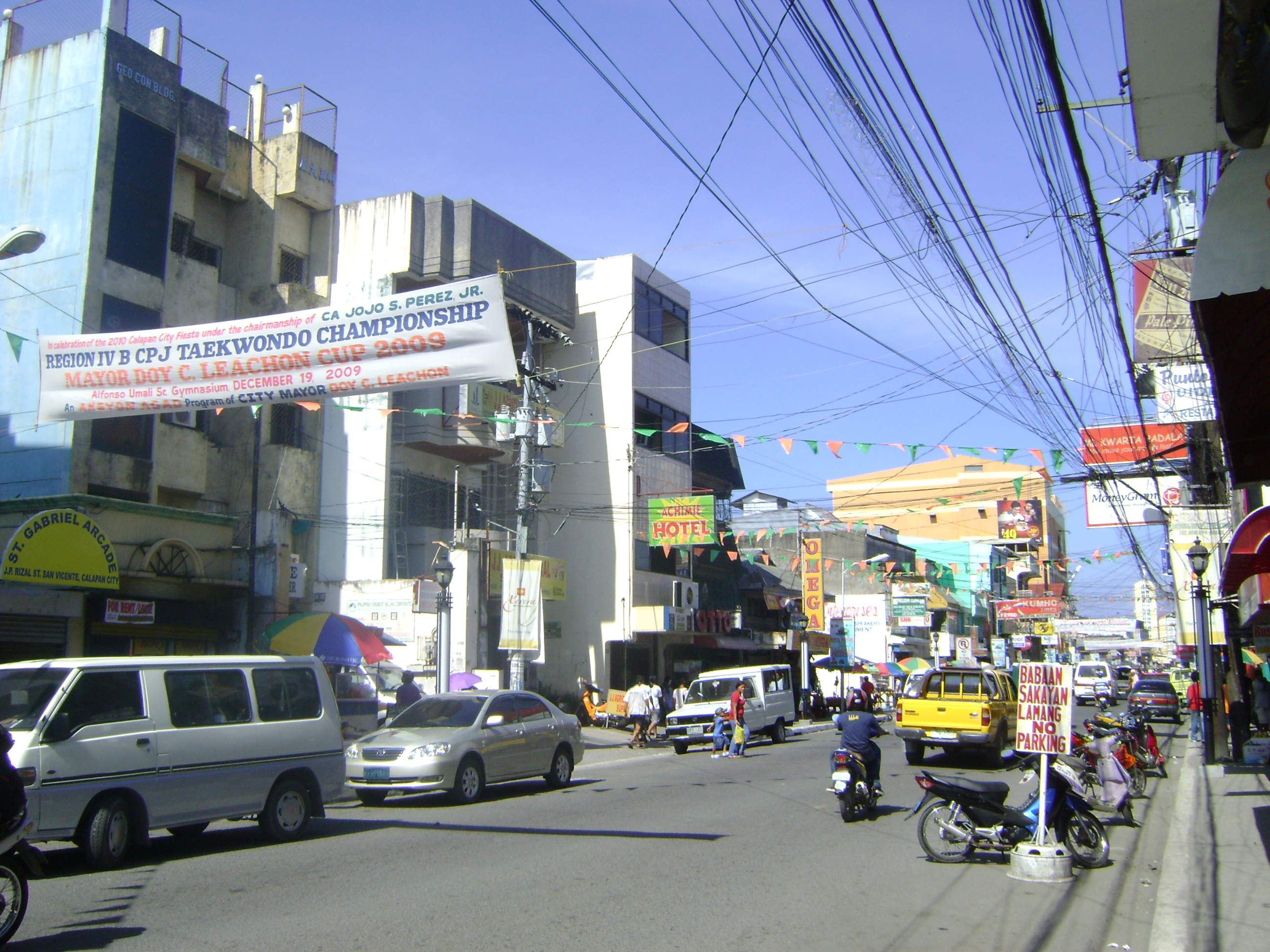 The busy J.P. Rizal Avenue in Barangay San Vicente is Calapan City's main street. The street is lined with the city's finest hotels, supermarkets, drugstores, restaurants, department stores, electronics and appliance stores.